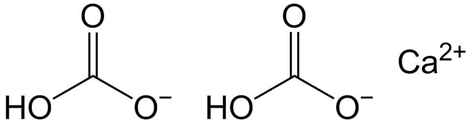 Calcium bicarbonate structure